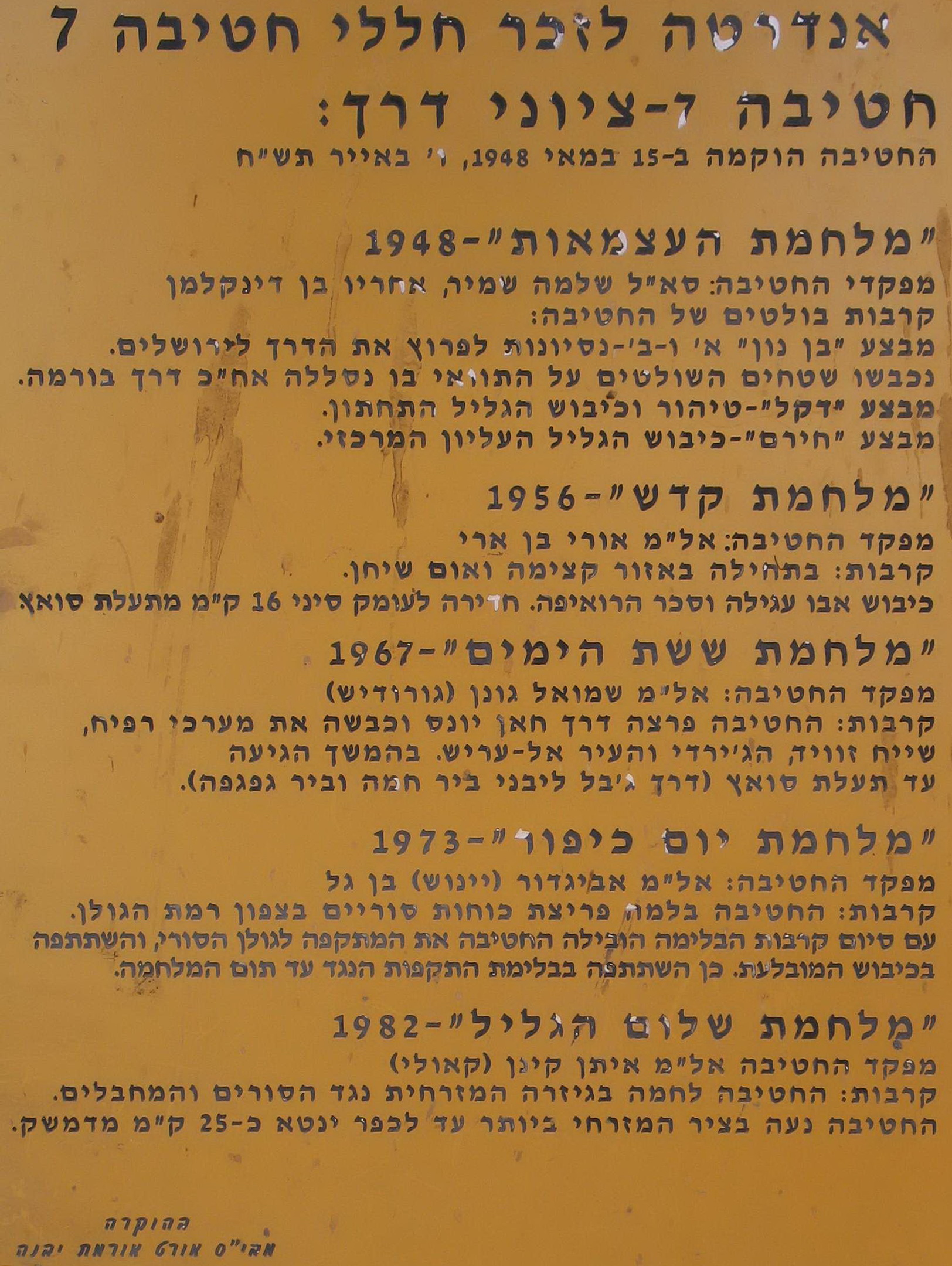 Memorial to fallen soldiers of IDF 7th brigade at Latrun, Israel.